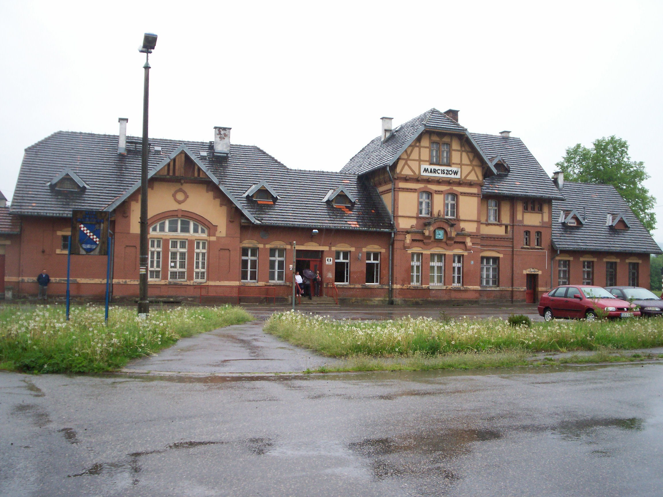 Train station in Marciszów.